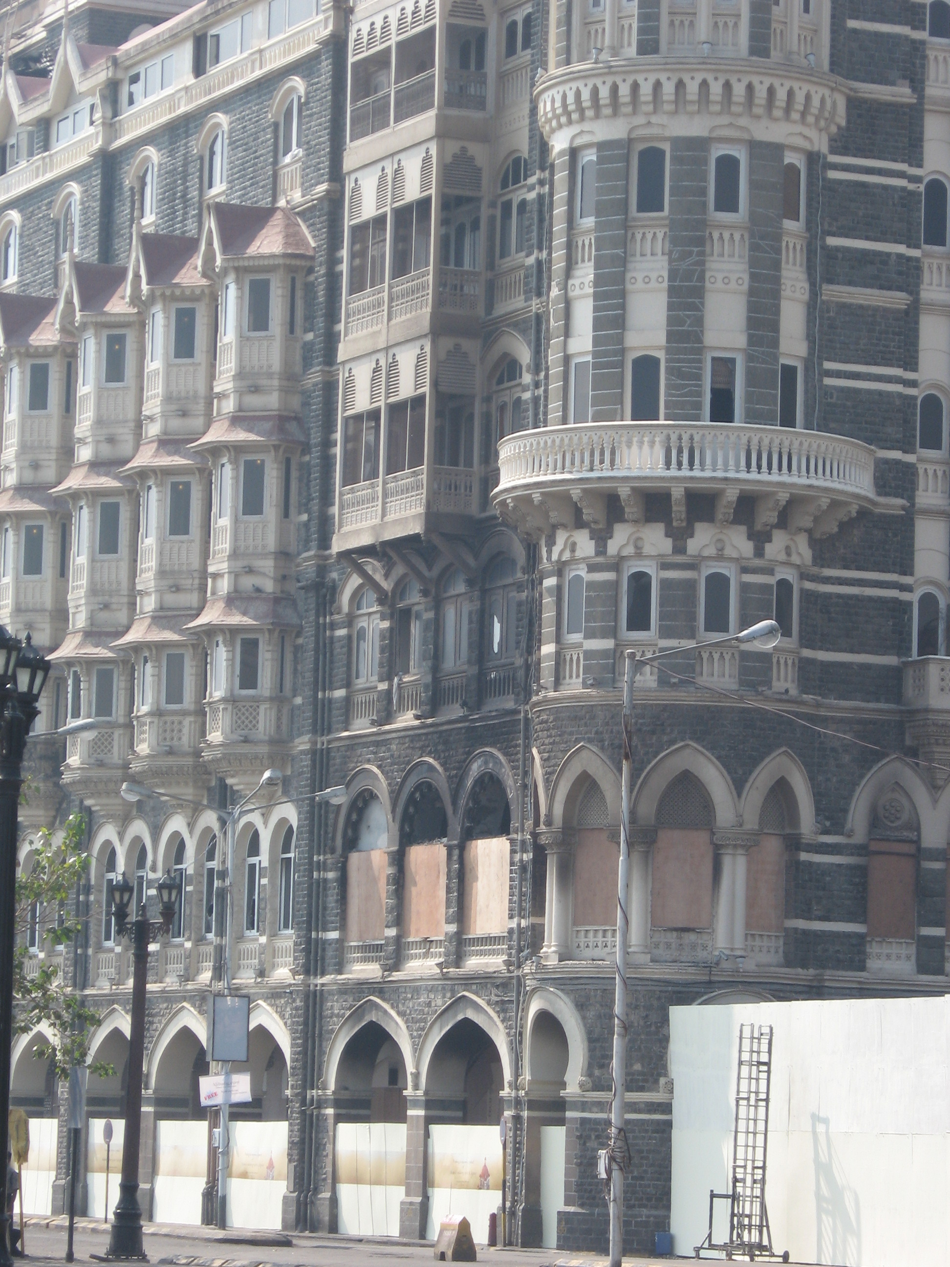 Taj Mahal Hotel with a closeup of the Wasabi restaurant gutted on the 1st floor following the November 2008 Mumbai attacks